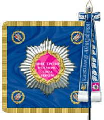 Flag of the Ministry of Internal Affairs of Ukraine (revers)